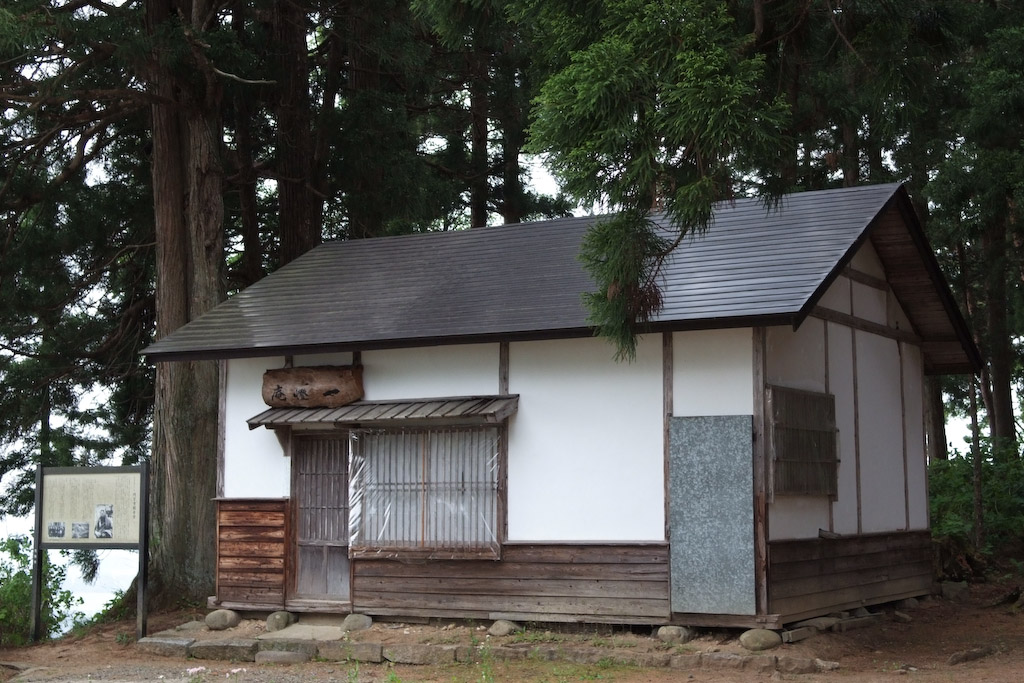 Ittoan, where Tada Tokan stayed from 1947 to 1951. Enmanji Kanon, Hanamaki Iwate Japan.